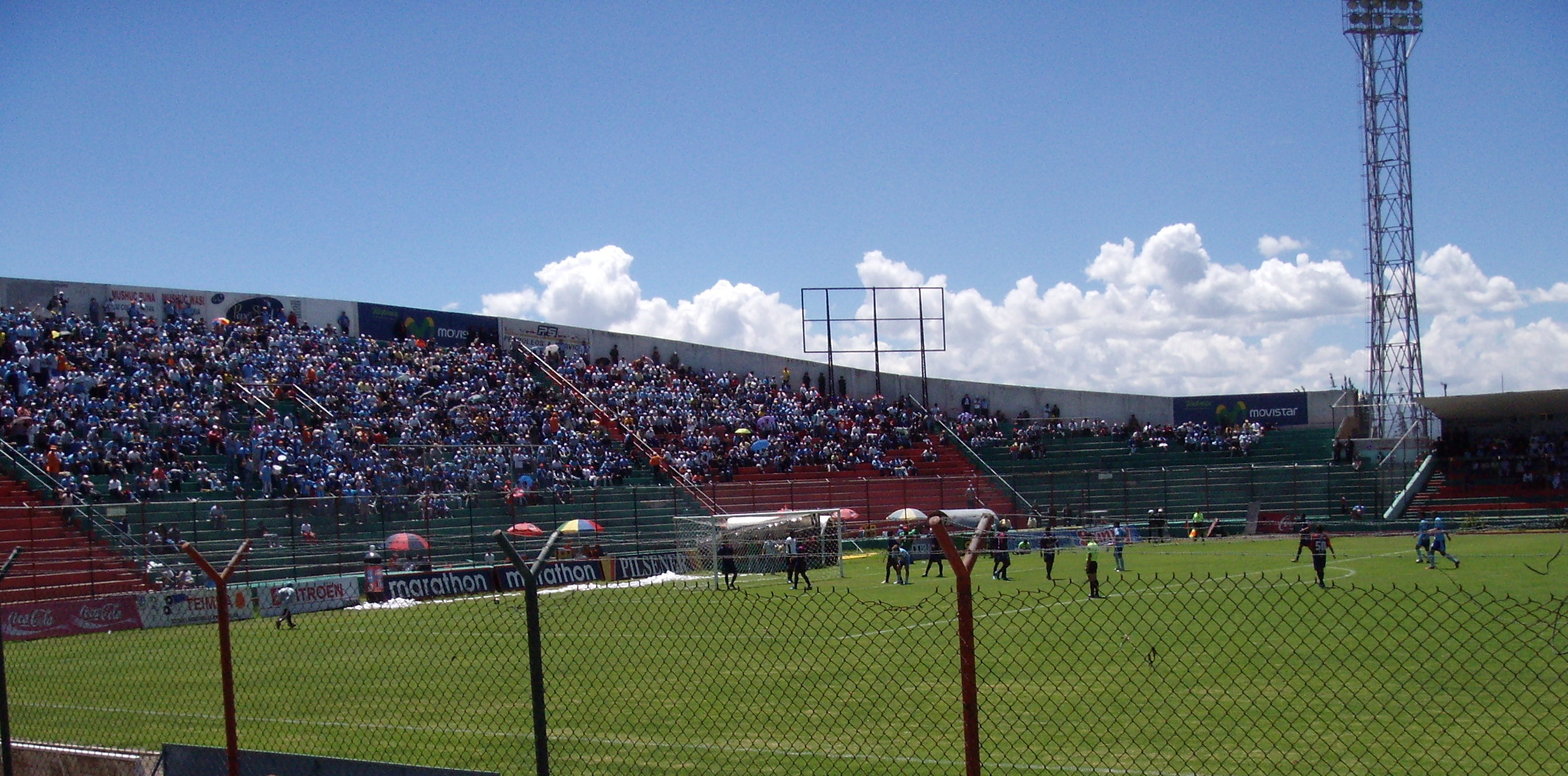 by Daniel Rude, "Inside Estadio Bellavista in Ambato, Macara vs Olmedo, 2008."